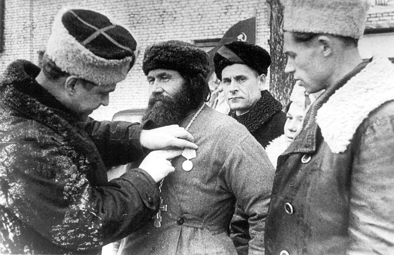 The village priest is awarded the medal To the partisan of the Patriotic War (Second Grade) pre-1954 image, unknown author from [1]